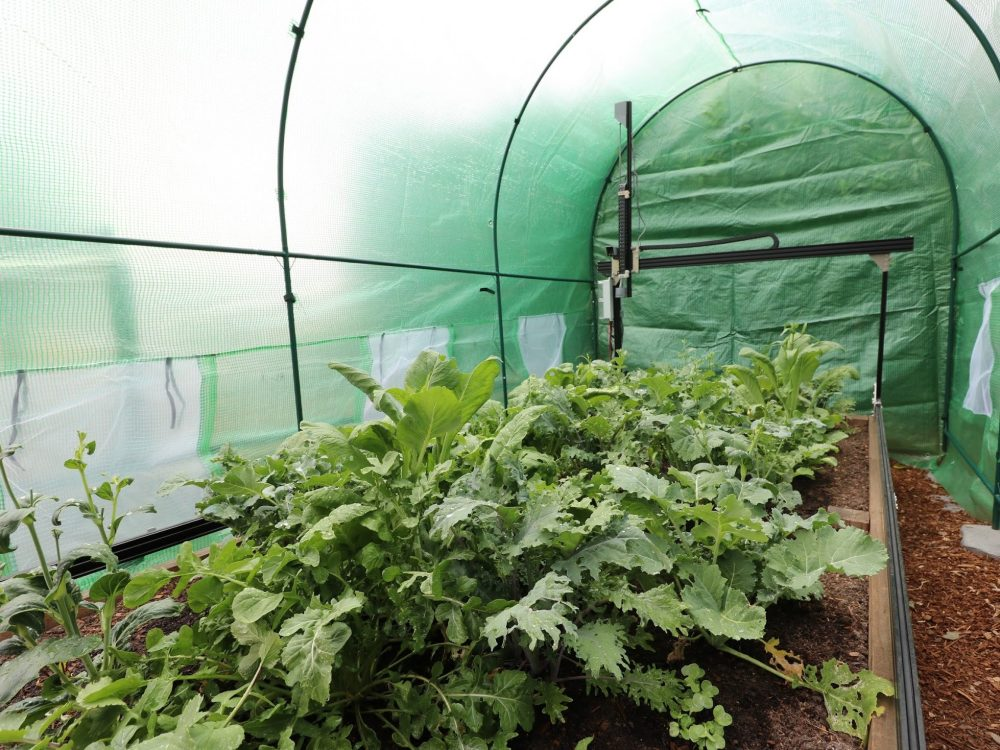 FarmBot Genesis in a greenhouse